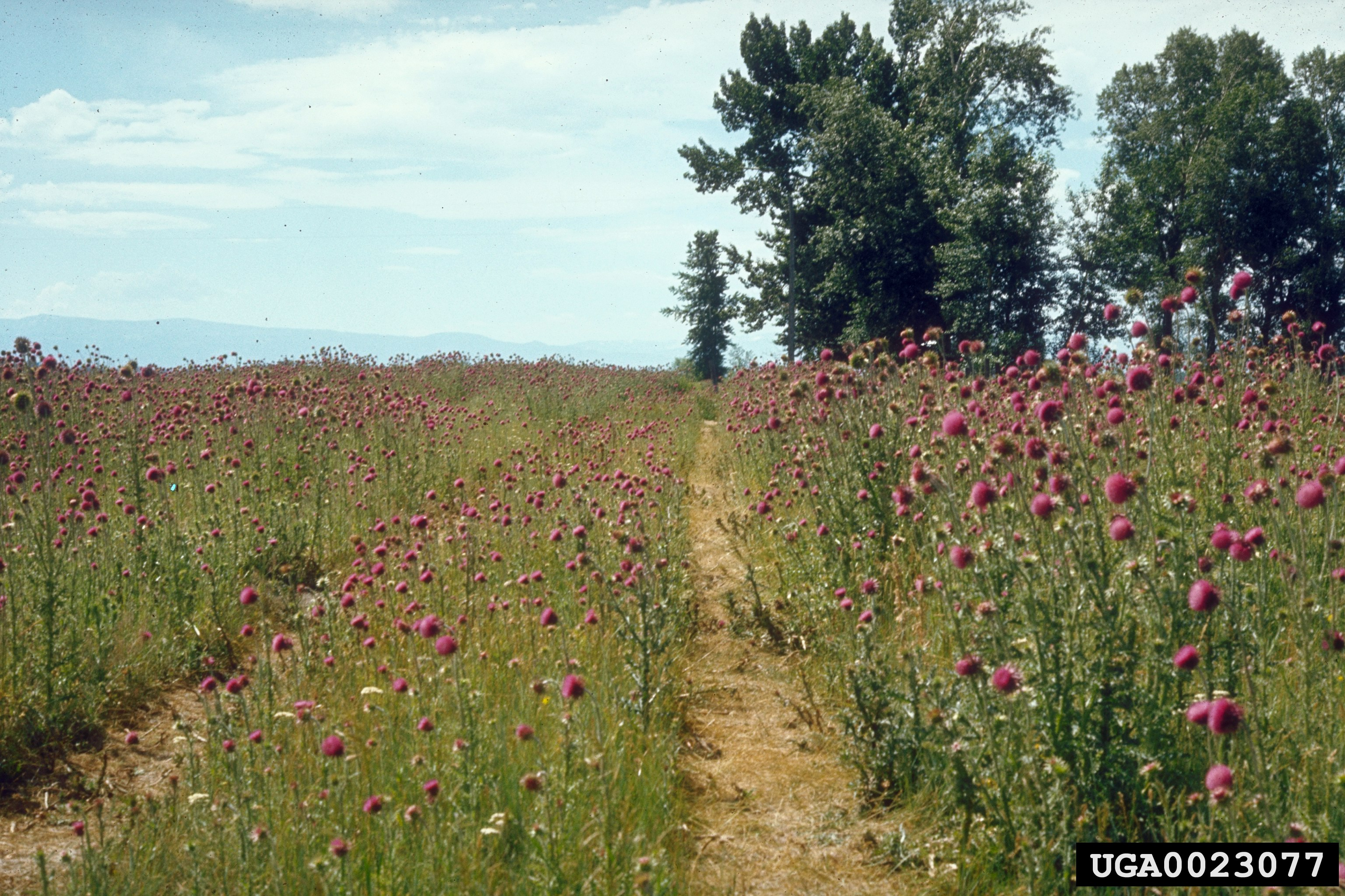 Pasture with Carduus nutans